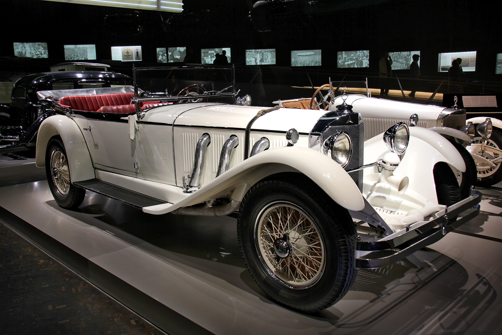 Visit at the Mercedes-Benz Museum, 09.04.2011